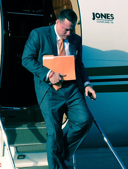 Tennessee Volunteers Head Coach Butch Jones exiting a plane.